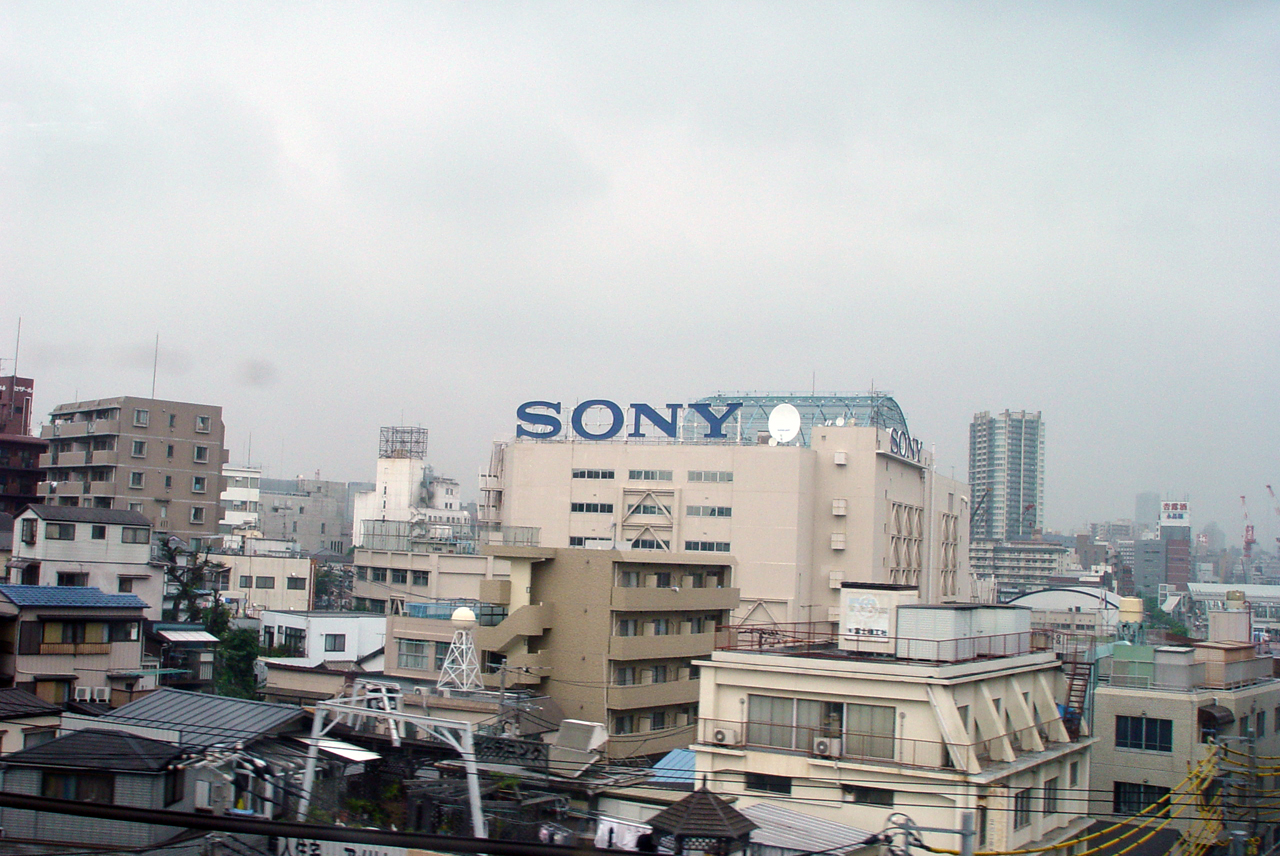 one of presumably many Sony buildings, taken through the window of the shinkansen.